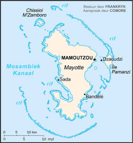 An Afrikaans map of Mayotte.